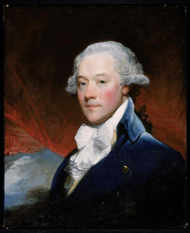 Colonel James Swan. 1795. By Gilbert Stuart, American, 1755–1828. 73.66 x 60.96 cm (29 x 24 in.). Oil on canvas. Museum of Fine Arts, Boston